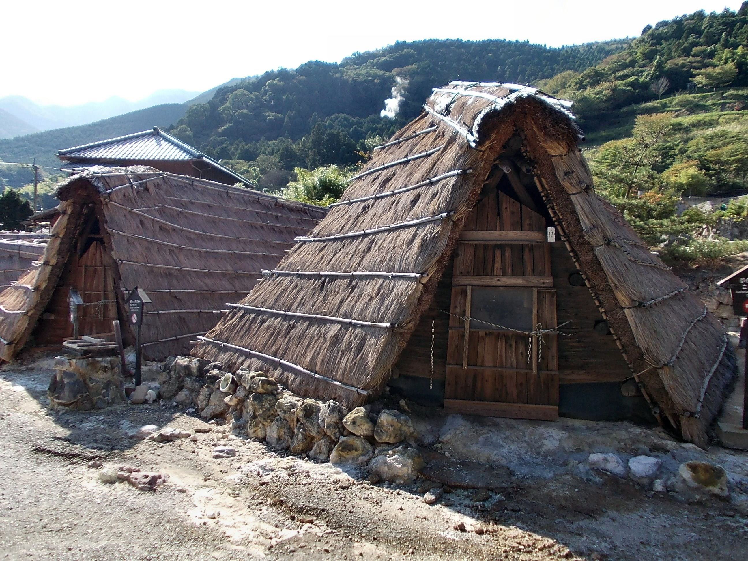 Myoban Onsen, Beppu, Oita, Japan